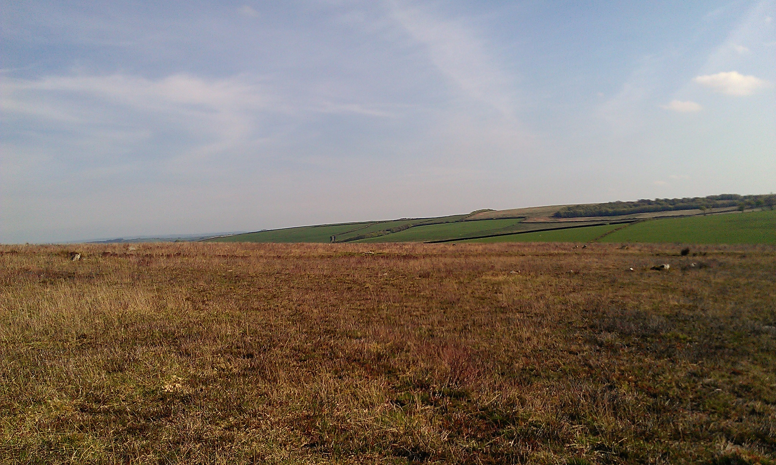 The Late Neolithic or Early Bronze Age stone circle at Withypool on Withypool Hill on Exmoor, Somerset.